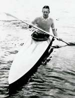 Dutch flatwater canoer Jaap Kraaier (1913-2004).